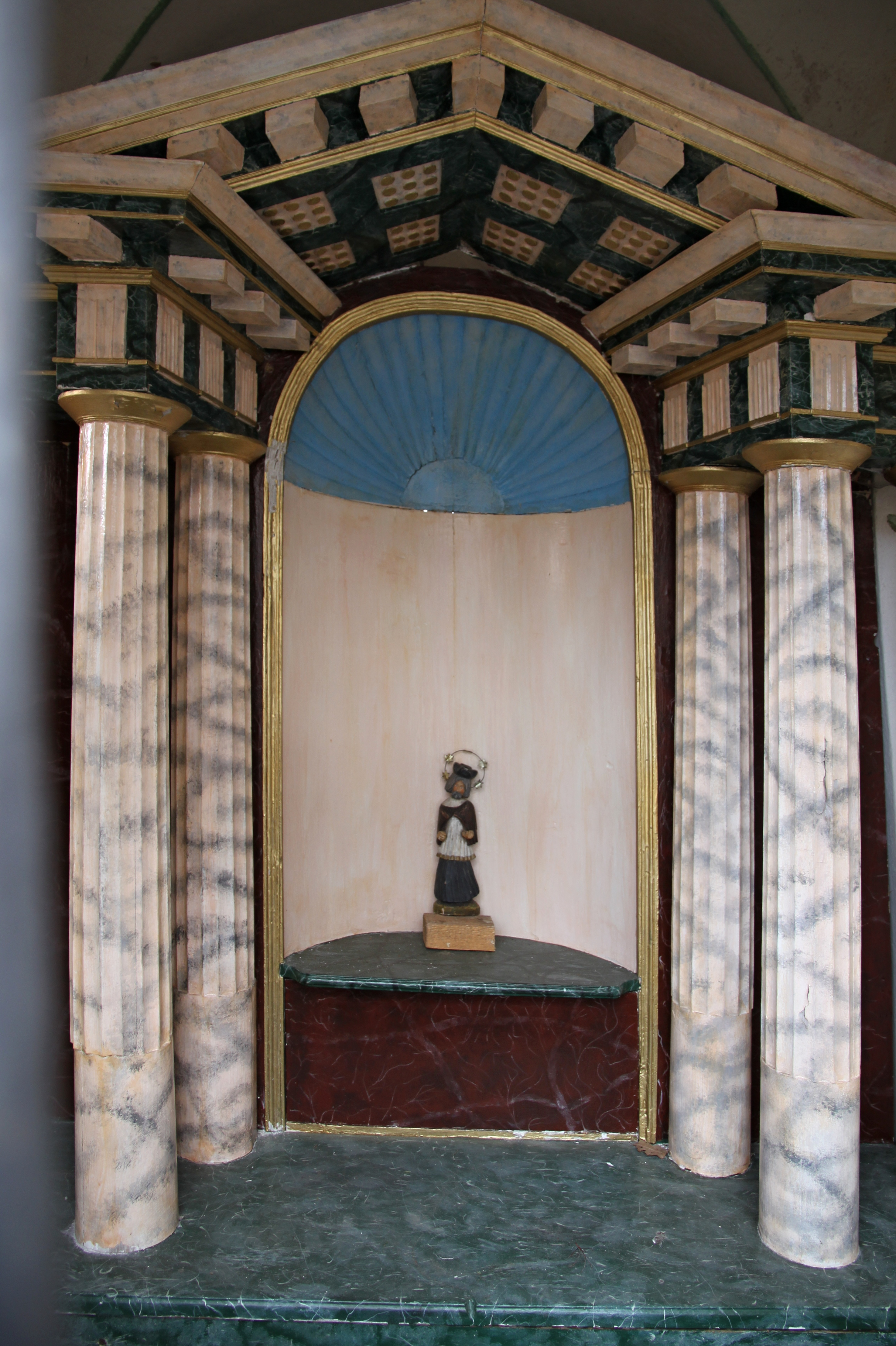 Detail of the Chapel of St. John of Nepomuk at the former Upper (Passau) Gate. Prachatice, South Bohemian Region, Czechia.